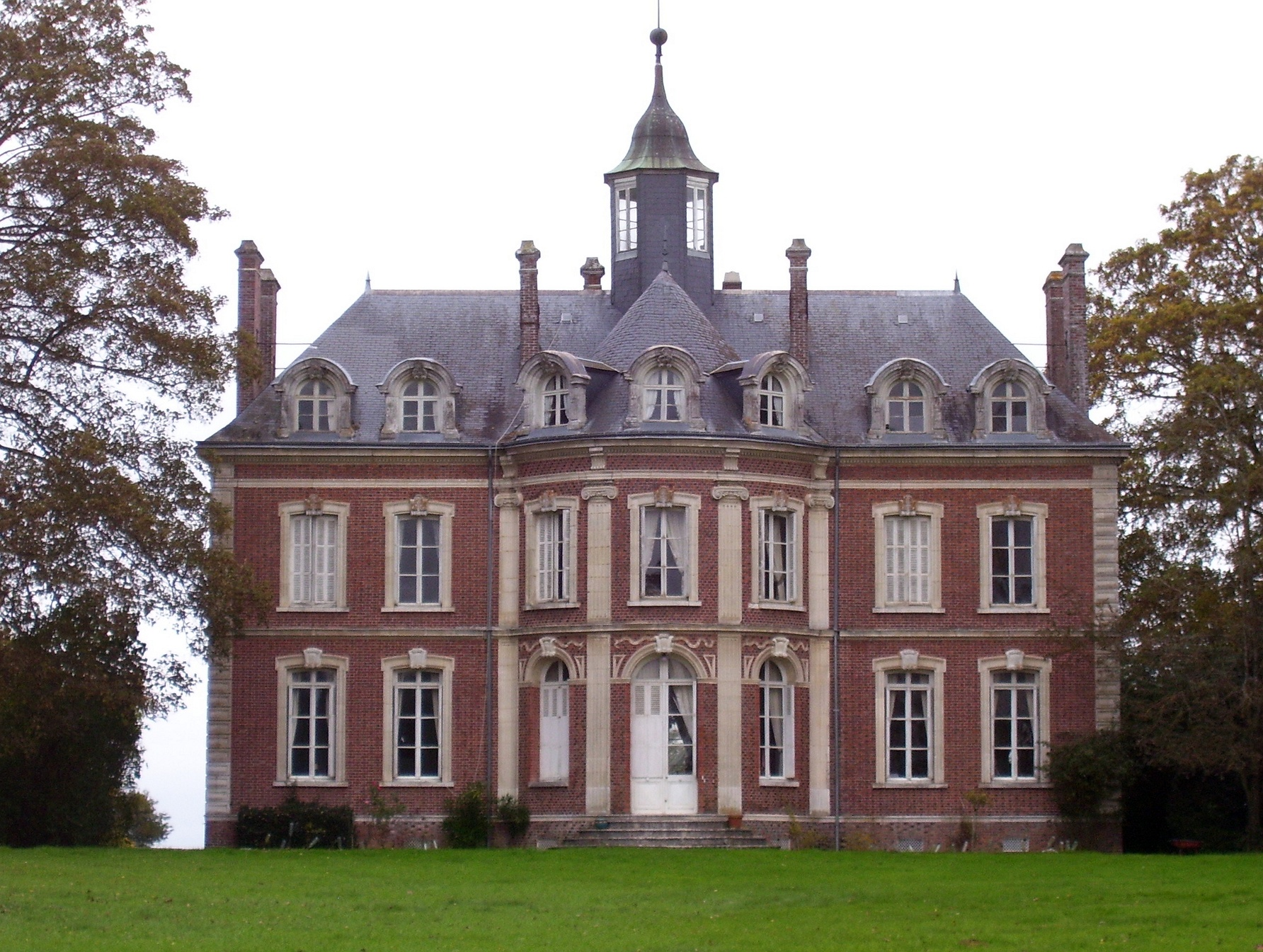 Castle in the hamlet La Vallée of Plasnes (Eure, Haute-Normandie) in France.